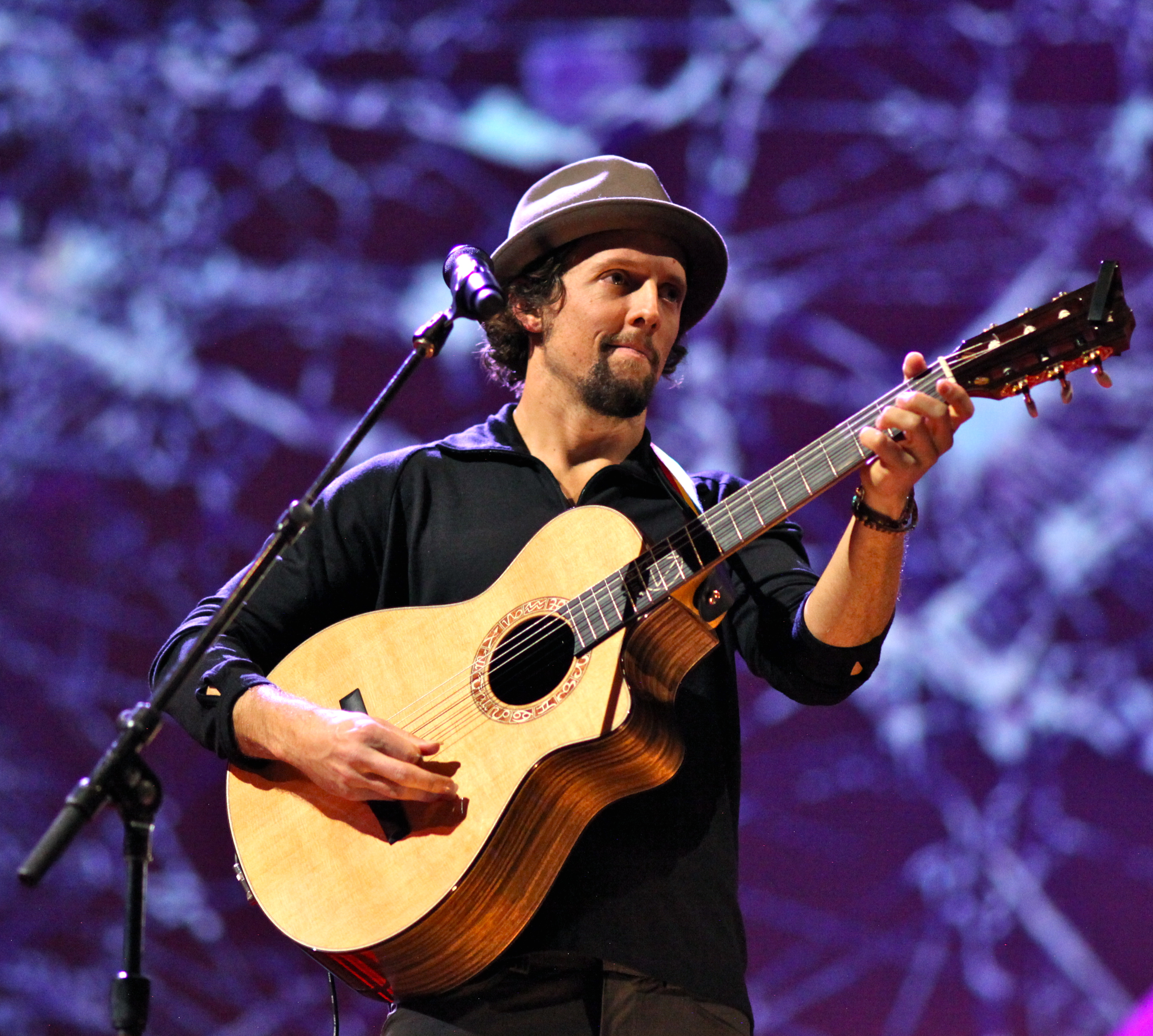 Jason Mraz performing at the February 28 - March 4, 2011 TED Conference. Taylor Jason Mraz Signature Model Inspired by Jason Mraz's Taylor nylon-string NS72ce